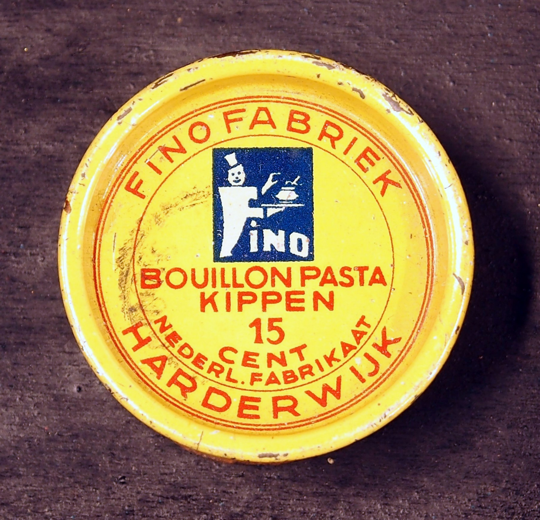 Old product that is not sold/produced anymore!